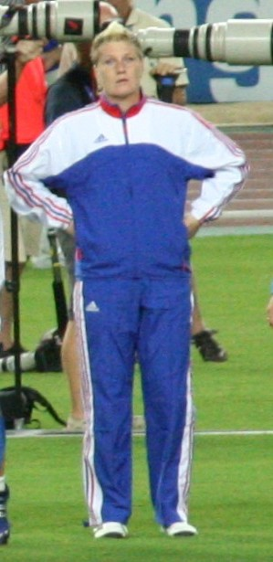 World Athletics Championships 2007 in Osaka - Nikola Brejchová